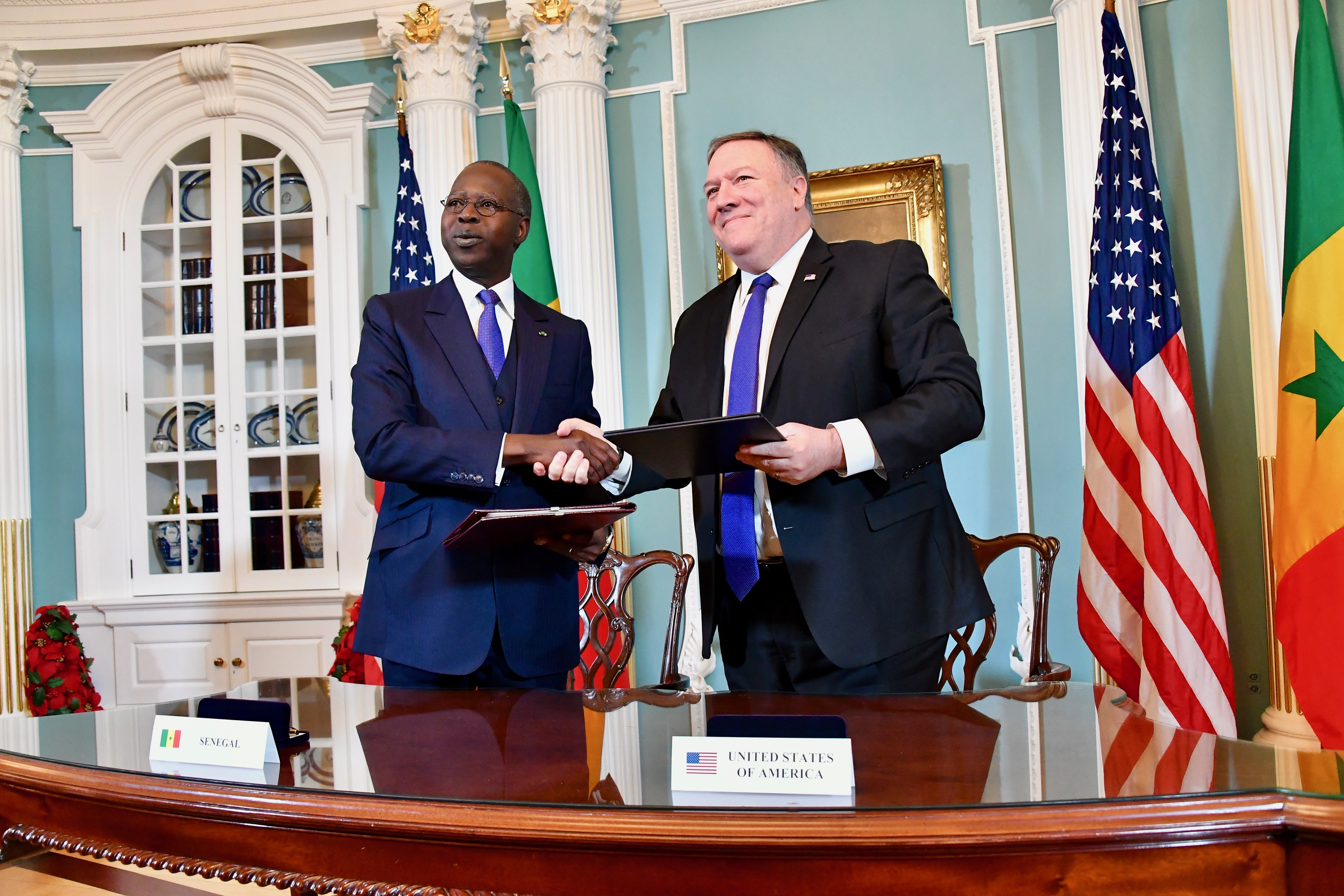 U.S. Secretary of State Michael R. Pompeo and Senegalese Prime Minister Mahammed Boun Abdallah Dionne attend the Millennium Challenge Cooperation (MCC) Signing Ceremony at the U.S. Department of State in Washington, D.C. on December 10, 2018.[State Department photo by Michael Gross/ Public Domain]